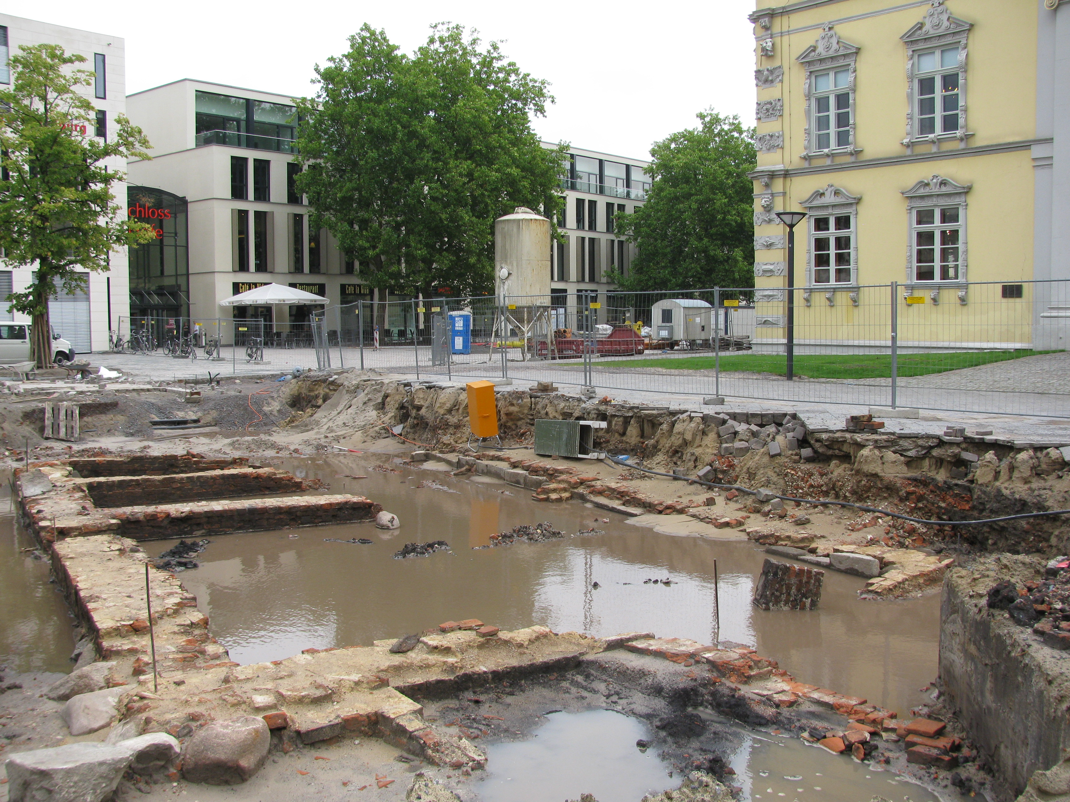 Excavation of the gatehouse of the medieval castle of Oldenburg, Lower Saxony, Germany.